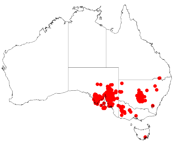 Acacia calamifolia Occurrence data from Australasia Virtual Herbarium downloaded from on 8 December 2018